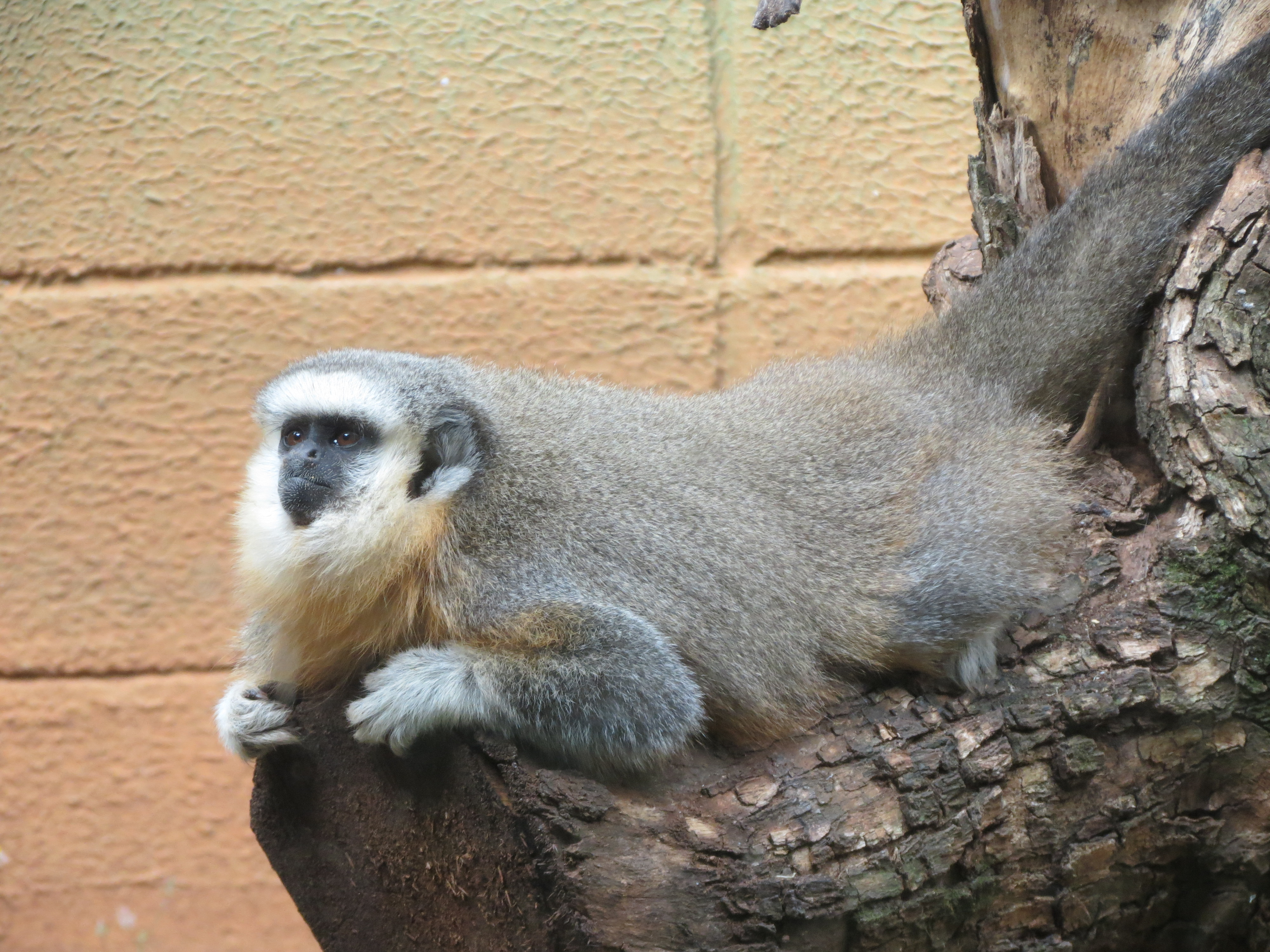 Vieira's titi (Callicebus vieirai) in Sorocaba Zoo.